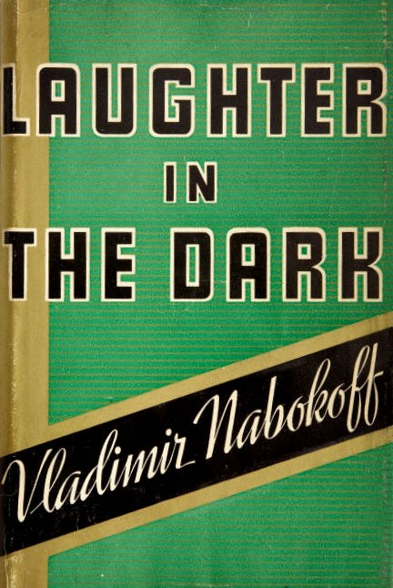 Laughter in the Dark. First US edition.